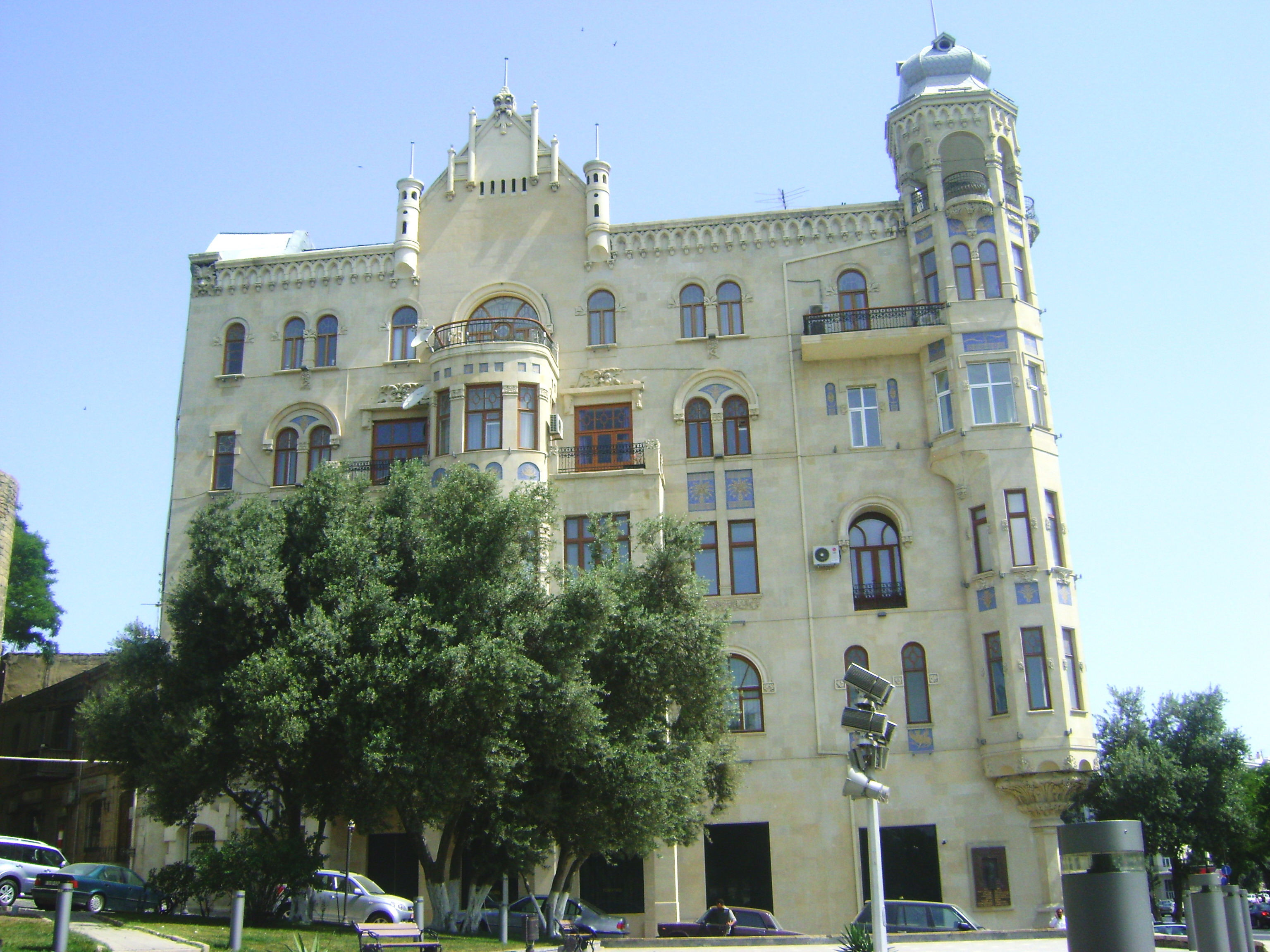 old building in baku - old city (azerbaijan). A building where lived long time Charles de Golle